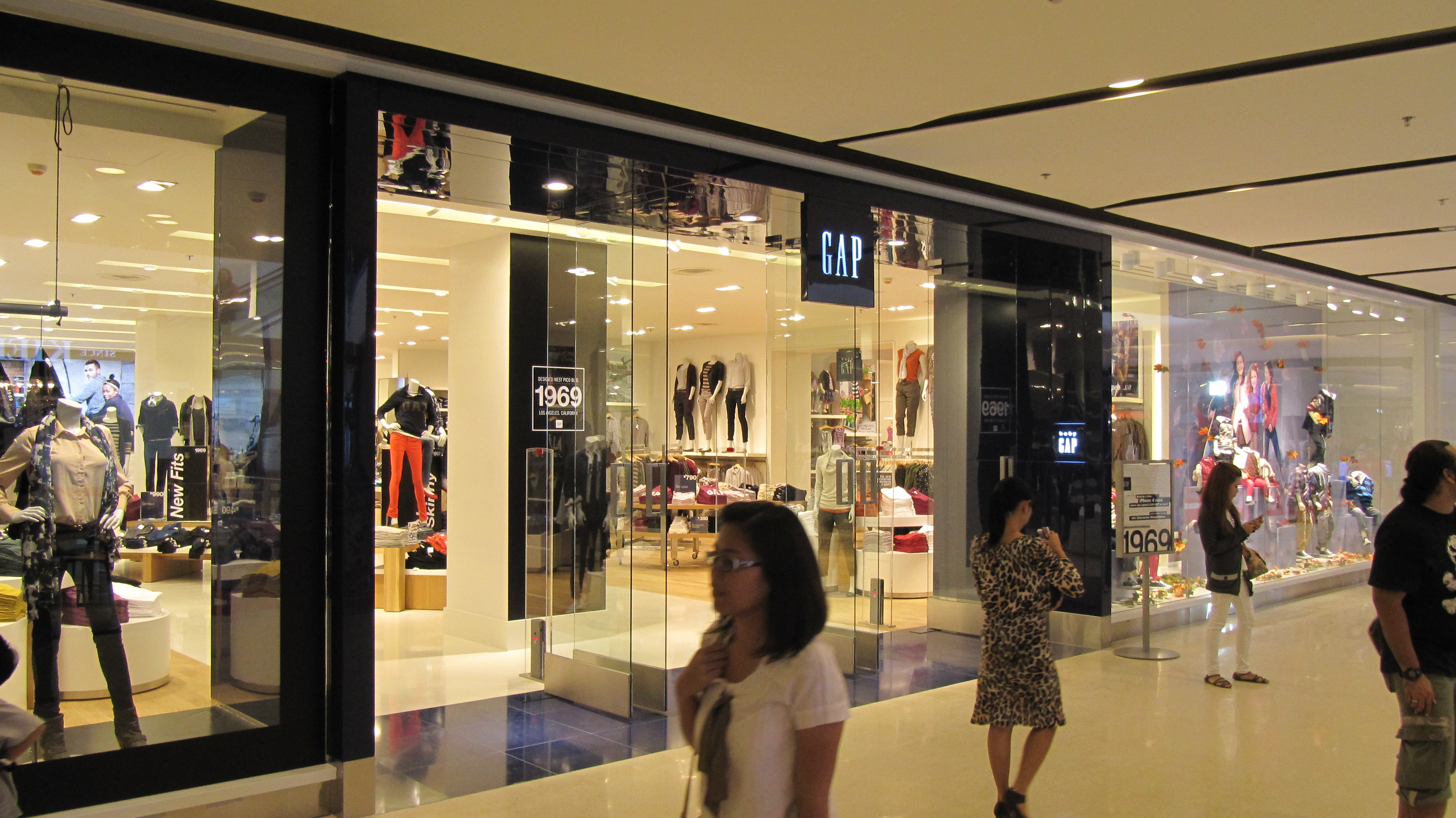 The newly renovated CentralPlaza Ladprao reopened on August 28, 2011.